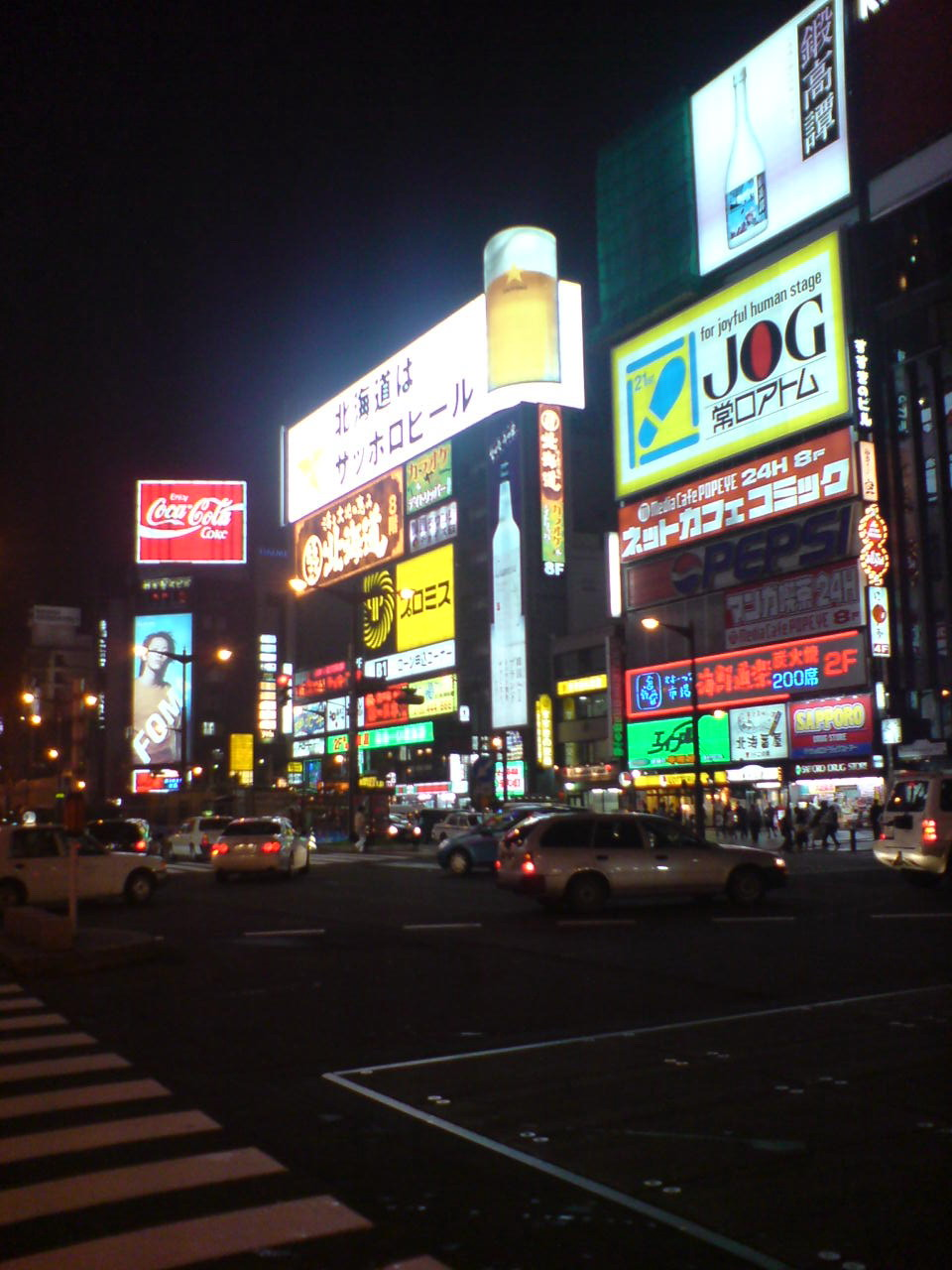 a shot of susukino night